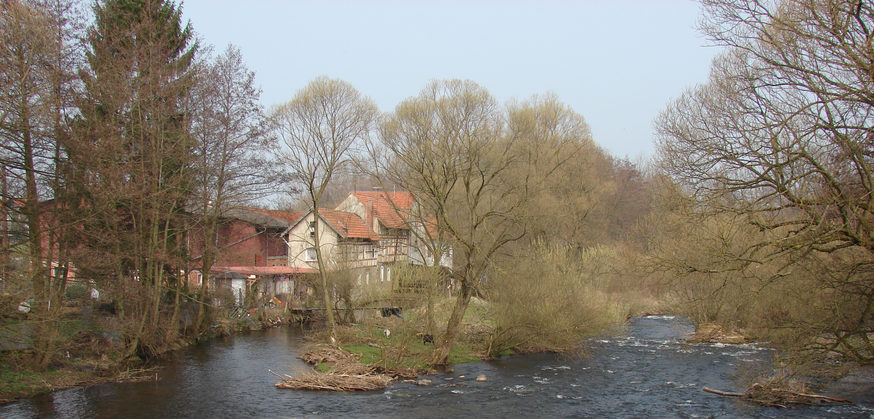 River "Ulster" close to Tann (Rhön) in Hesse